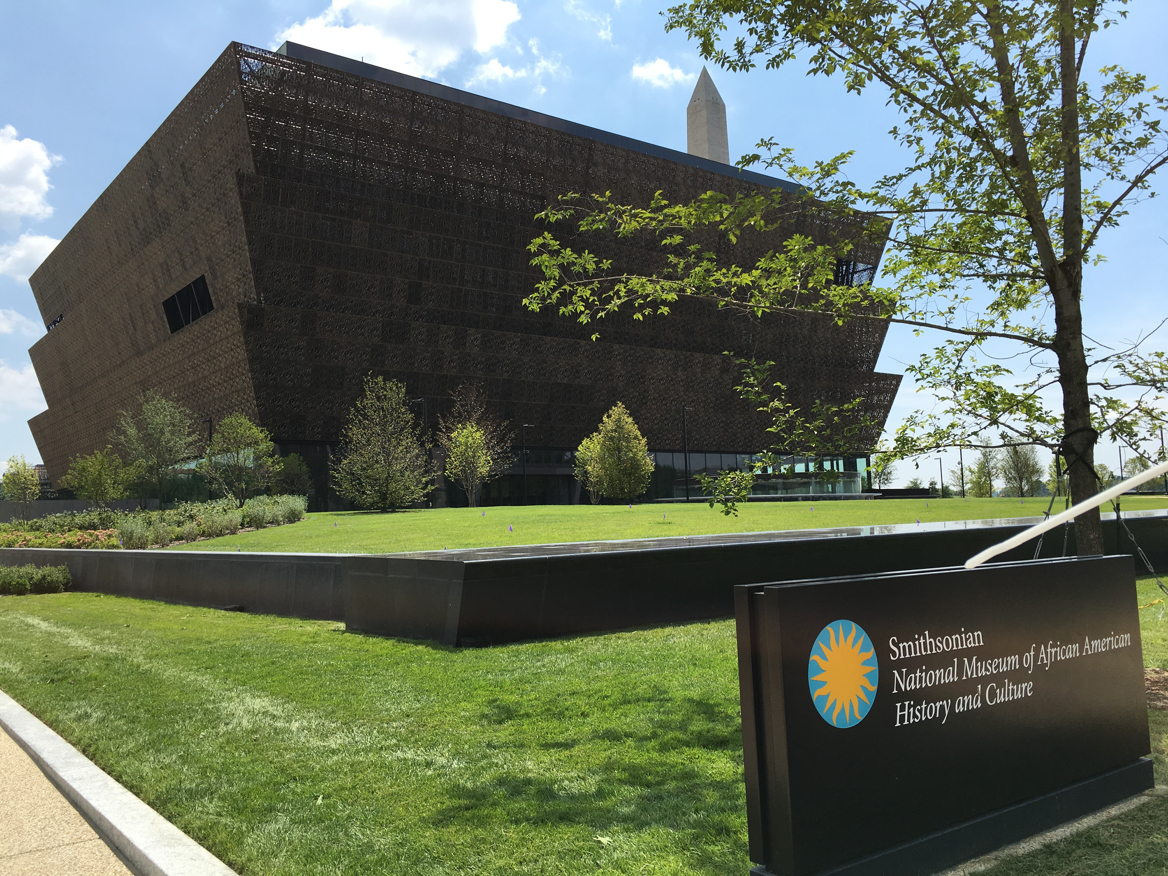 Exterior of the Smithsonian National Museum of African American History and Culture, July 20, 2016